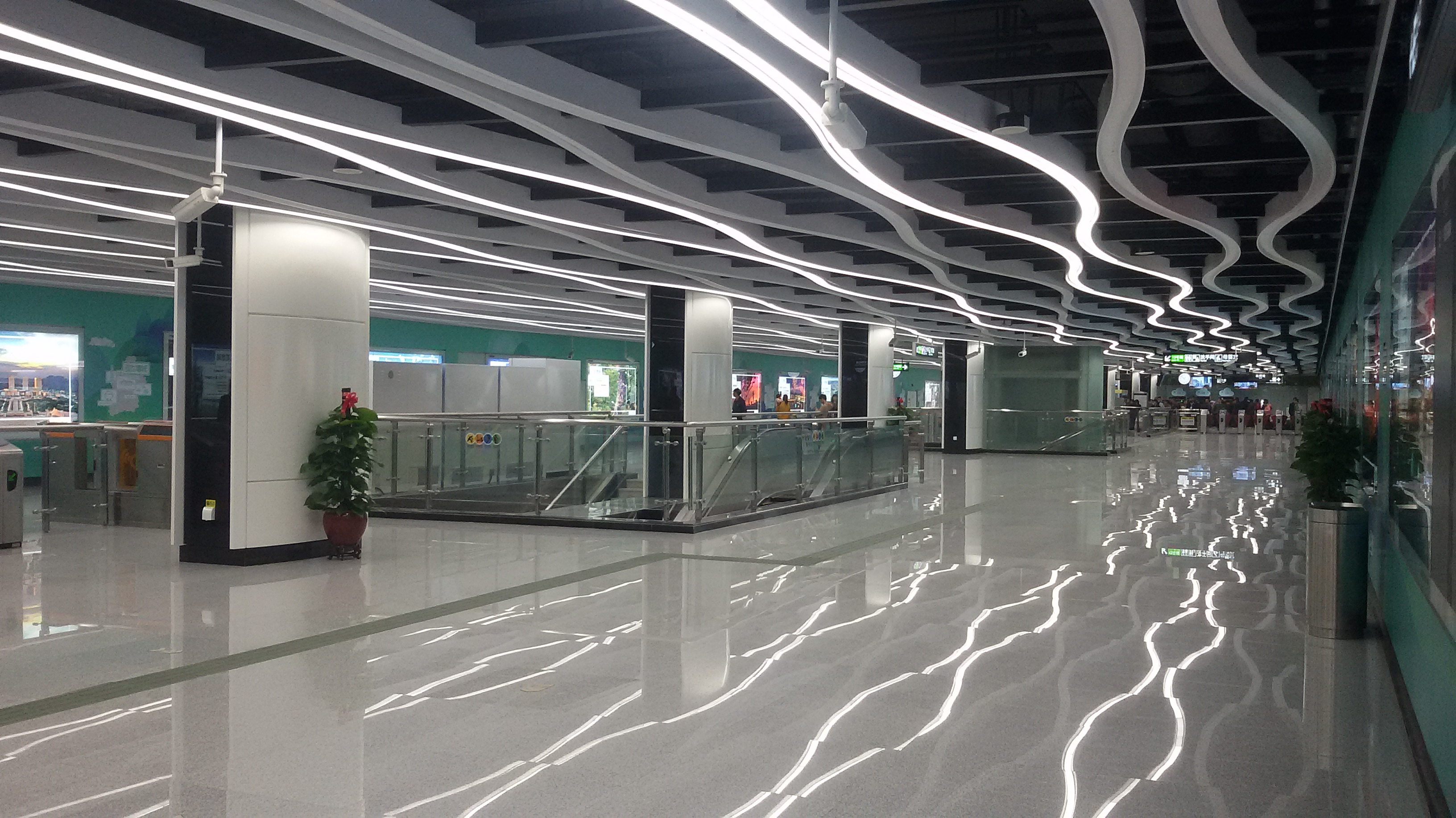 Station Concourse for Shacun Station in Guangzhou Metro.